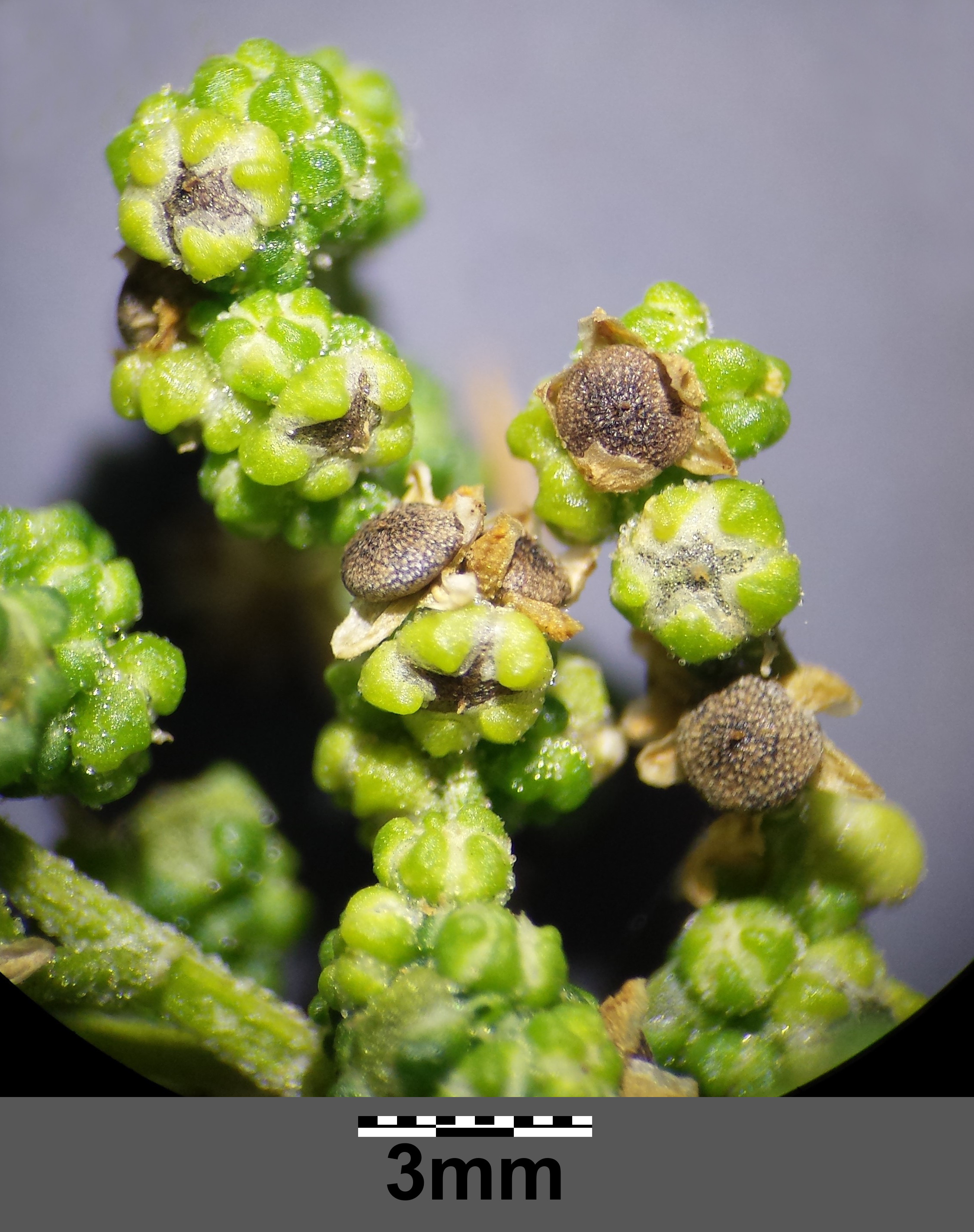 Infructescence Taxonym: Chenopodium hybridum ss Fischer et al. EfÖLS 2008 ISBN 978-3-85474-187-9 Location: Pragerstraße/O'Brien-Gasse/Am Nordwestbahnhof, Vienna-Floridsdorf - ca. 160 m a.s.l. Habitat: abandoned allotment